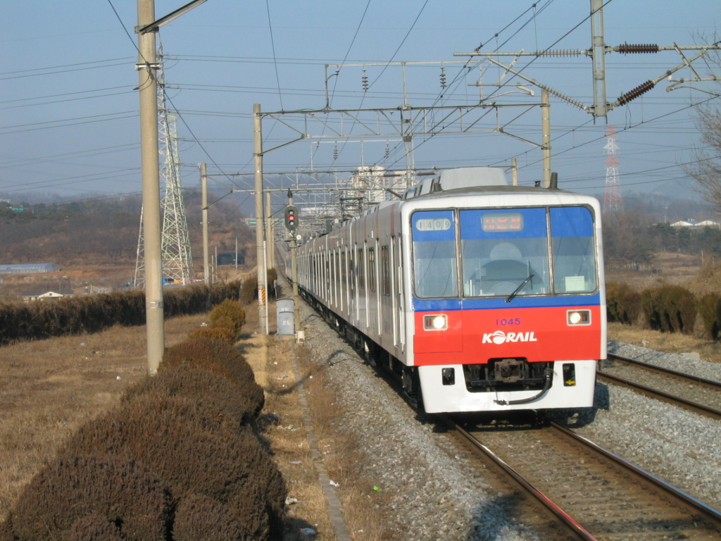 Korail 1045(Korail EMU Class 1000) in Ansan line. They run in Ansan line only for their checkup.